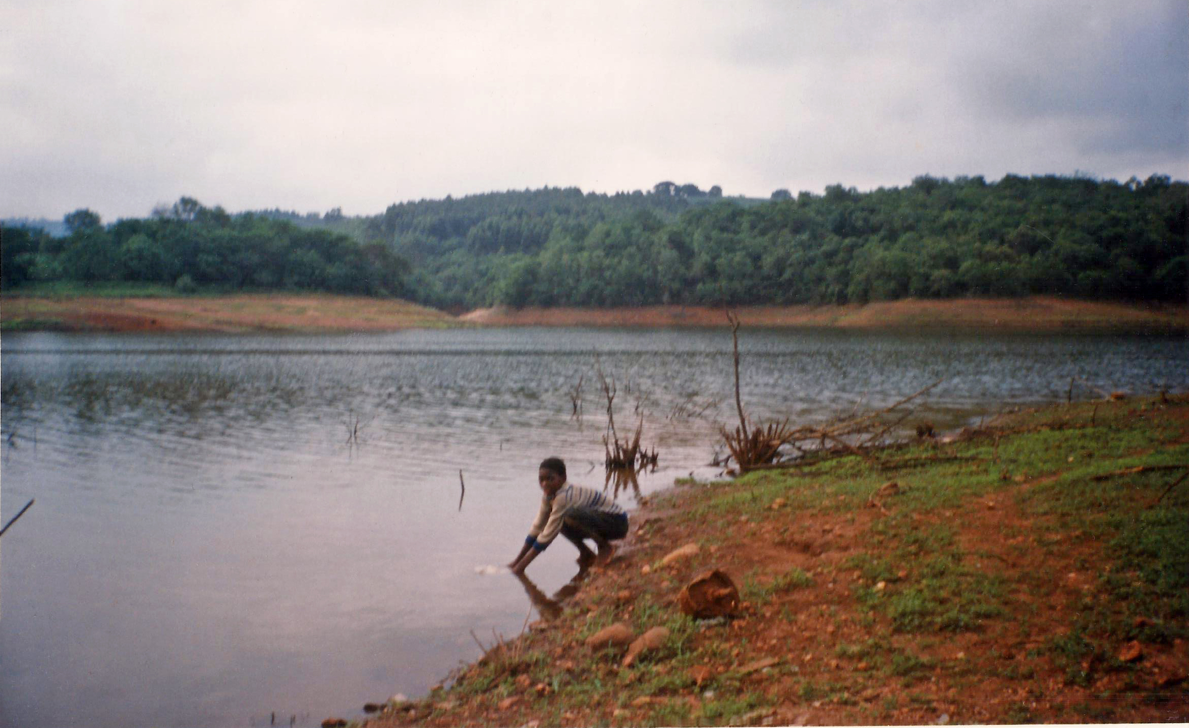 I was given by my hosts at the lodge a very general warning about the hippos in the dam. I think though, that at the same time the hippos were warned about me; none was spotted during my stay there, and I could even take a thrilling ride with the boat for a short oar there and back in the afternoon. This kid was then the only living creature I saw on the banks of the water in that amazingly-quite place, a forty minutes walk distance from the downtown of Tzaneen, interrupted only by the occasional screams of the monkeys from the tops of the mango trees in the adjacent plantation.IsiZulu: Tzaneen.